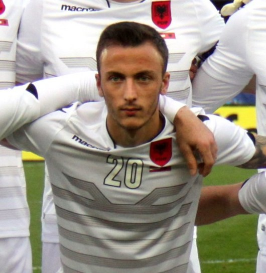 Friendly match – Austria (red shirts) vs. Albania (white shirts) 2–1 (2–0) on 2016-03-26 in Ernst-Happel-Stadion, Vienna – The photo shows the Albanian national football team (from left to right): 1st row: Elseid Hysaj (Napoli), Ergis Kaçe (PAOK Thessaloniki), Amir Abrashi (SC Freiburg), Taulant Xhaka (FC Basel), Ermir Lenjani (FC Nantes); 2nd row: Mergim Mavraj (1. FC Köln), Lorik Cana (Nantes), Bekim Balaj (Rijeka), Etrit Berisha (GK, Lazio), Andi Lila (PAS Giannina) and Ansi Agolli (Qarabağ)